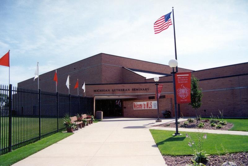 Front entrance of Michigan Lutheran Seminary